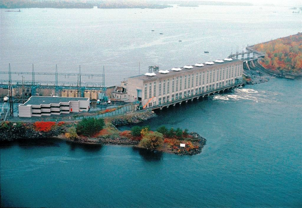 The Chat-Falls Generating Station, owned by Ontario Power Generation and Hydro-Québec on the Ottawa River. The station, located 56 km northwest of Ottawa, straddles the border between Ontario and Quebec.